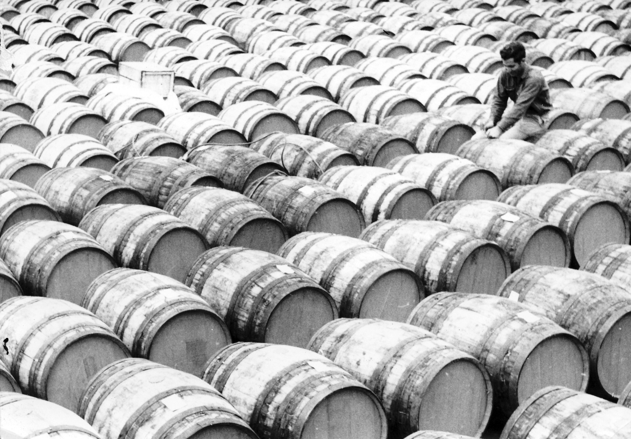 Gan-Shmuel sb7- 21, Econimy of Israel